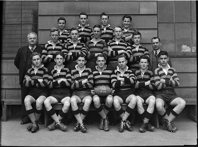 Image title:Sydney Grammar School football team Description: Student rugby team (5th XV) of Sydney Grammar School in 1945.